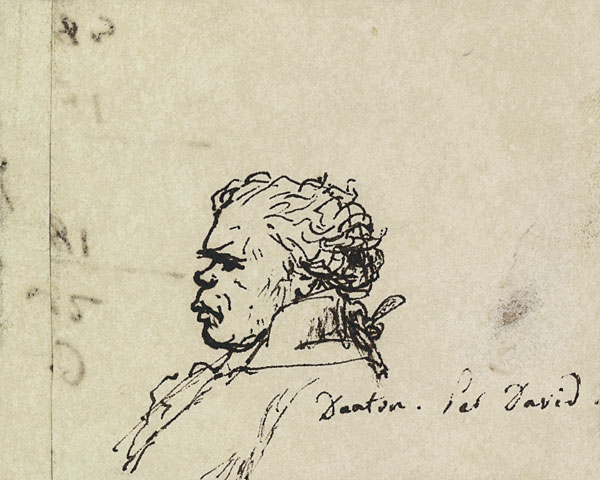 Danton by David, pen and ink, 6,2 x 7,6 cm. (2.4 x 3 in.).